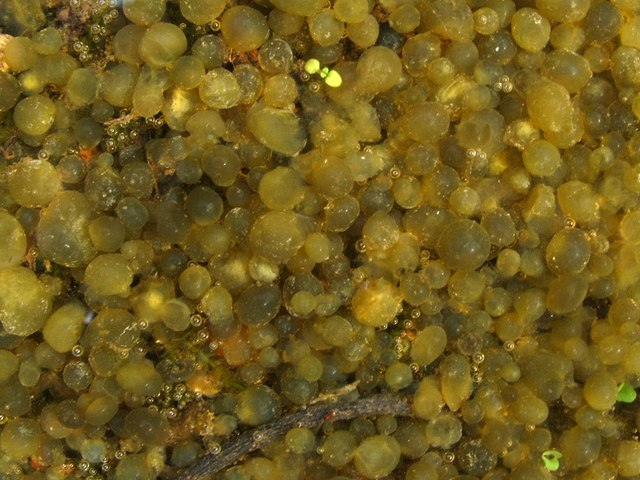 Cyanobacteria - Nostoc pruniforme These rounded structures were present in abundance in some puddles; the area where the puddles occurred corresponds to the snow-covered foreground area of the following photo: 1158049.The blobs in this photo clearly show some variation in size, but the largest are about a centimetre across. They are colonies of cyanobacteria (which used to be referred to as "blue-green algae"); unusually for bacteria, cyanobacteria perform photosynthesis, although the structures involved are not bound within chloroplasts as they are in plant cells. The species shown here is Nostoc pruniforme, and the blobs are sometimes referred to as Mare's Eggs. 1314485 shows some less typical-looking colonies, but provides more details on this species, and on Nostoc in general.[ (at Algaebase) for detailed taxonomic information, and for other pictures.]Of interest is the fact that the area where the present photo was taken is rich in fragments of concrete, while the alternative photograph (link just cited) shows colonies growing on limestone, suggesting that these cyanobacteria prefer a lime-rich habitat; this is indeed the case. The concrete fragments here provide an environment that resembles natural limestone sufficiently closely to allow the colonies to flourish.Although this species was abundant in puddles in this area, the ground nearby was covered in an even greater abundance of another Nostoc species, one that I had not encountered before: 1470398.[Note: Cyanobacteria are bacteria, not algae, but the existing image category of "Algae" was chosen for convenience.]